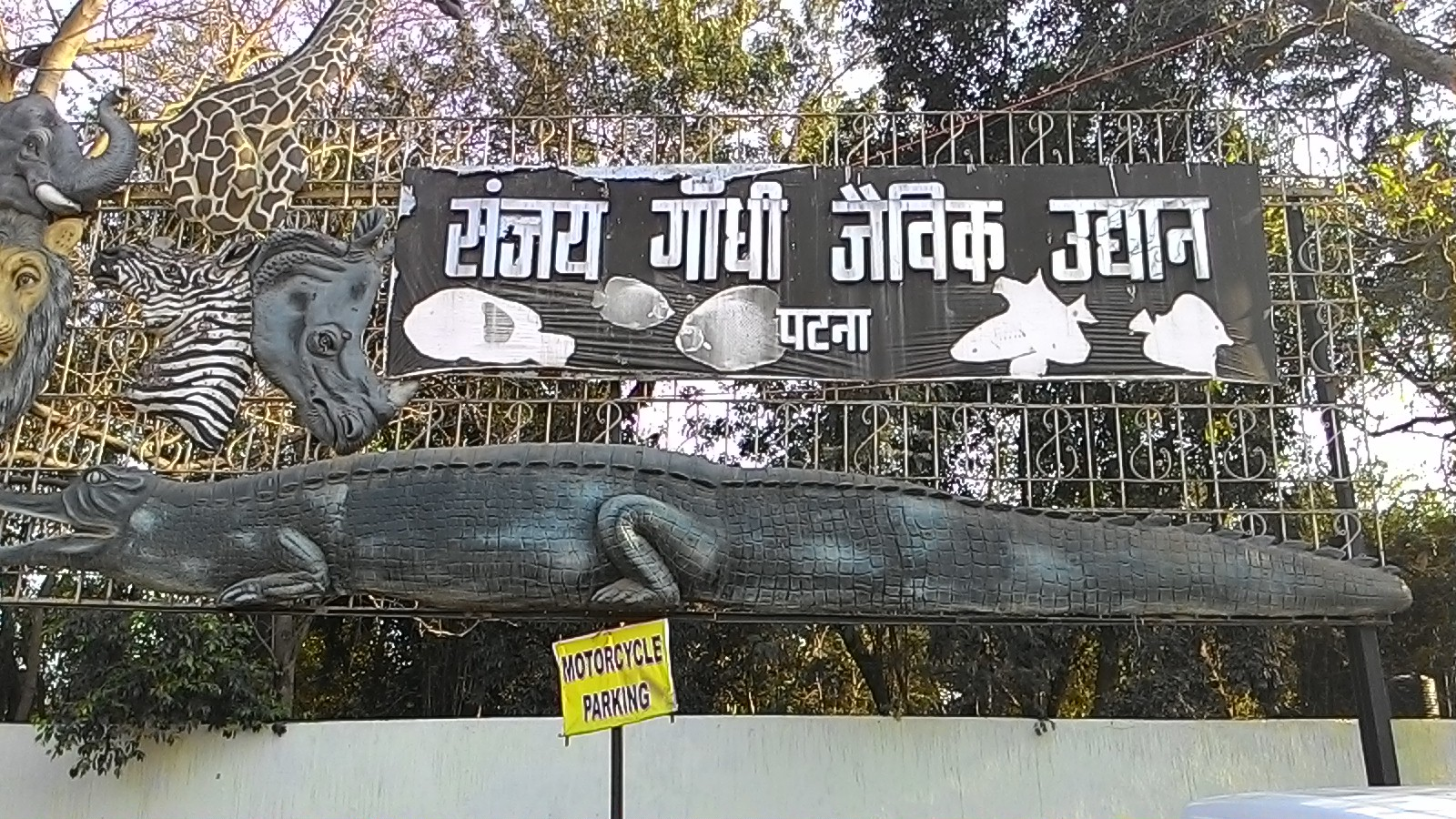 Hoarding at Sanjay Gandhi Jaivik Udyan